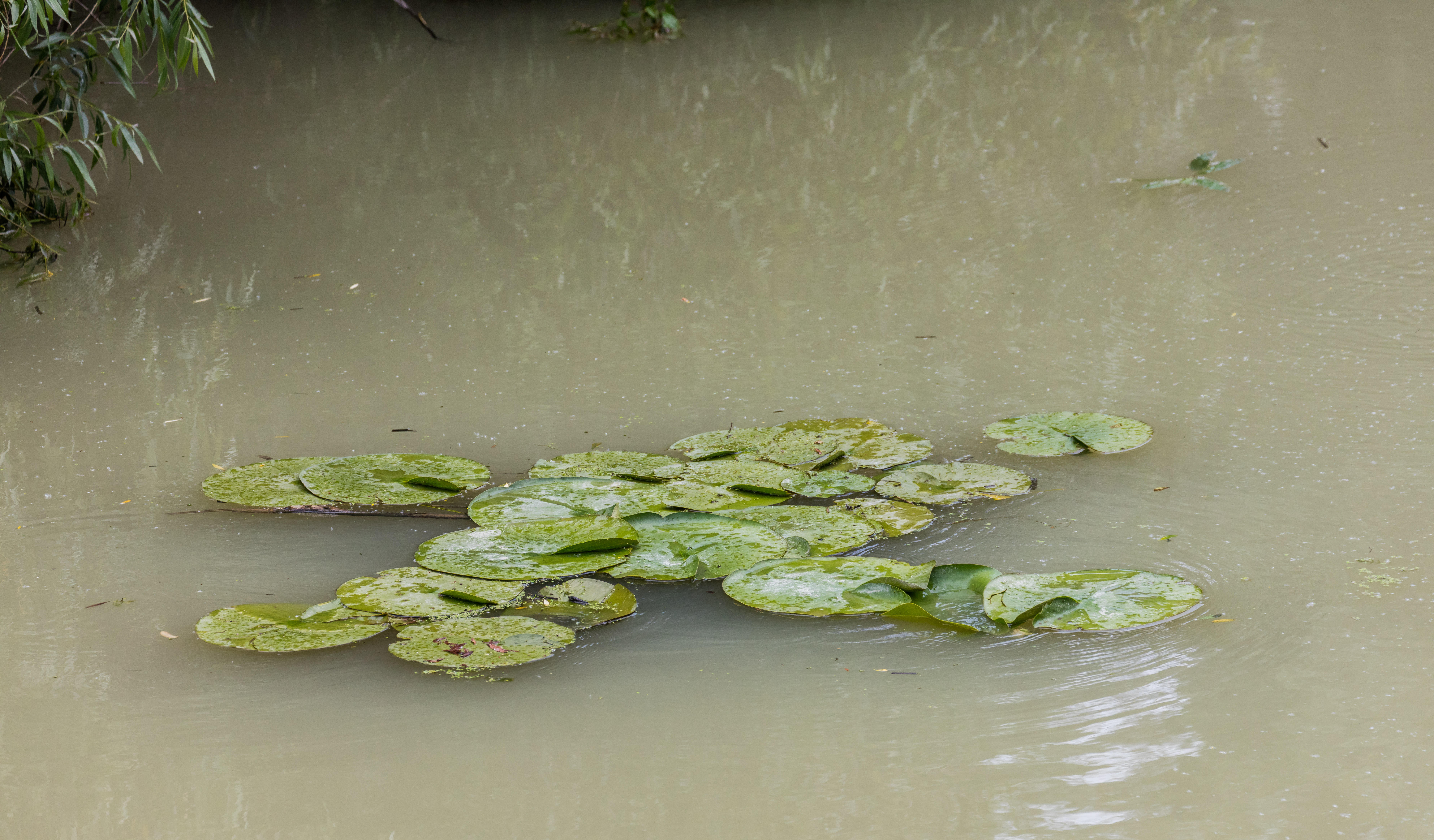 European white water-lily (Nymphaea alba), Danube Delta, Romania